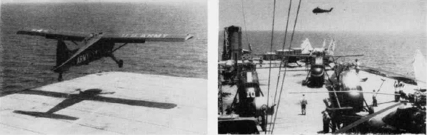 Two photos from the U.S. Military Sealift Command utility aircraft carrier USNS Corregidor (T-CVU-58) in July 1958 off Lebanon in the Mediterranean Sea. When the Lebanon crisis broke in the summer of 1958, Corregidor was at Brindisi, Italy, and immediately lifted two U.S. Army De Havilland Canada L-20 Beaver reconnaissance planes of the 24th Infantry Division, and 10 Sikorsky H-34 Chocktaw helicopters to support the landings.